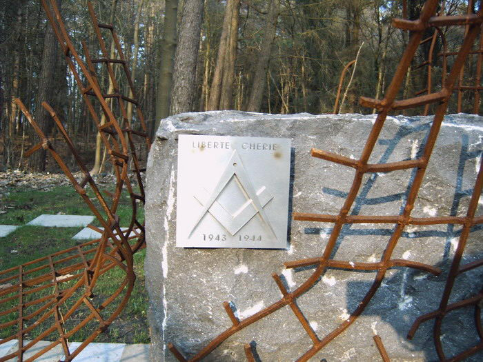 Memorial of the Nazi concentration camp Esterwegen for the Masonic Lodge Liberté chérie